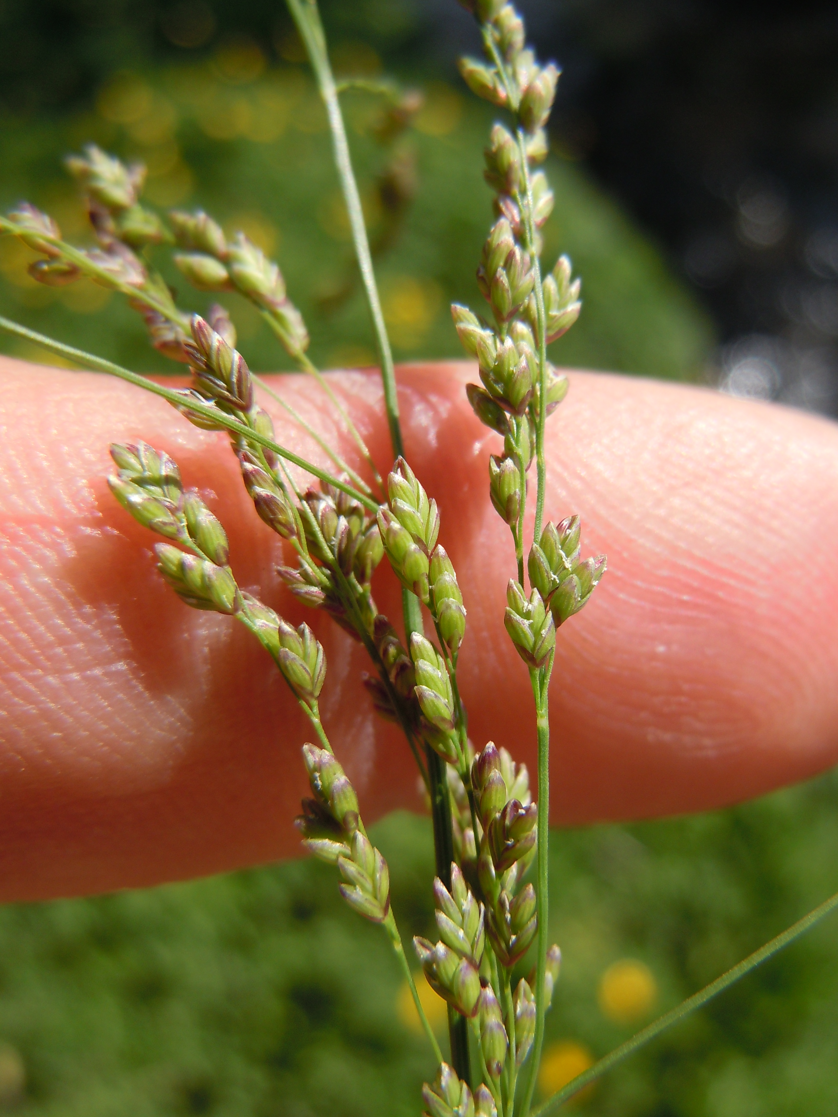 The relatively small spikelets with few florets characterized by tiny glumes in which the mid rib is not prominent or at least does not extend into the area of the glume tip is characteristic of this species.